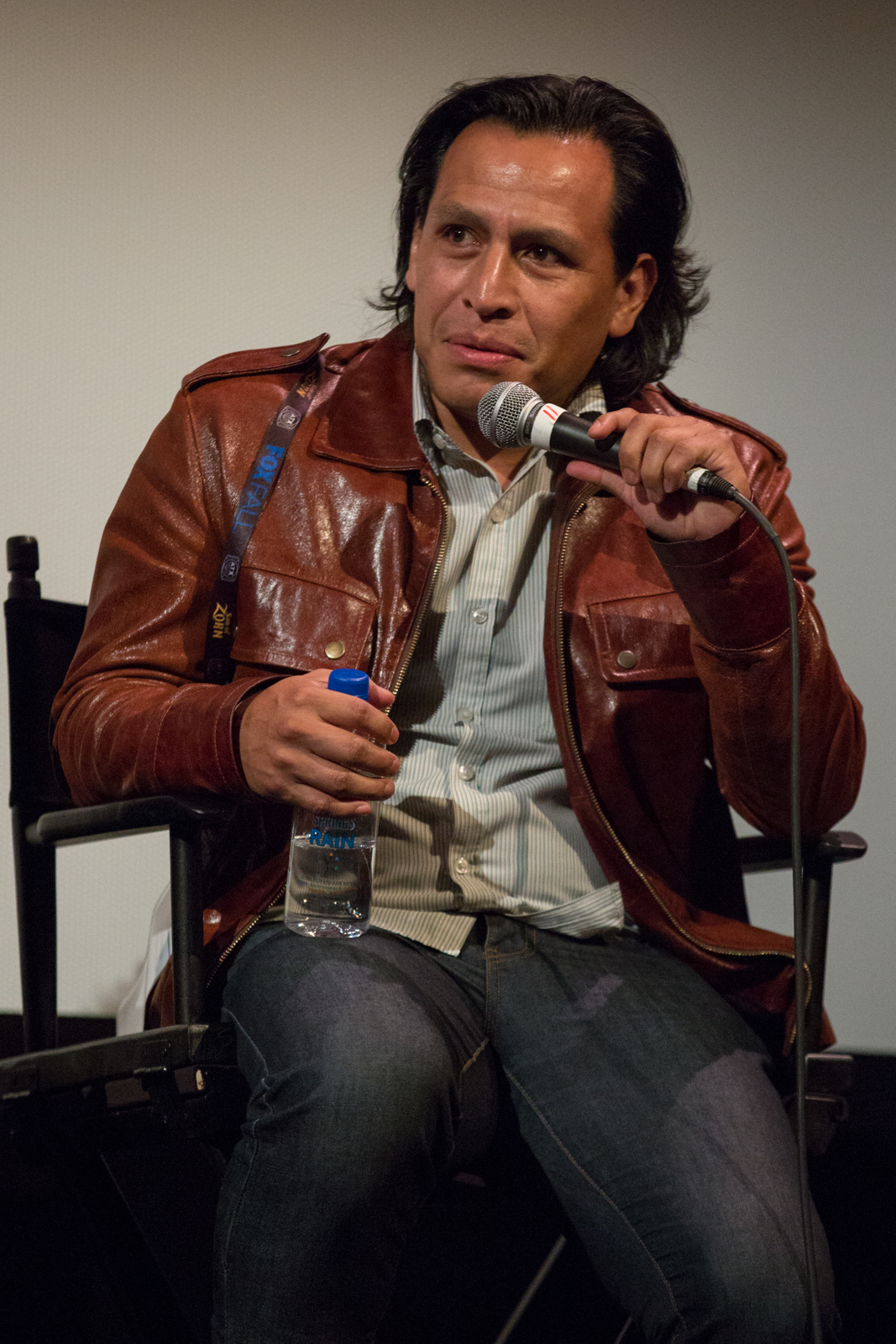 Gerardo Taracena at the ATX Television Festival presentation of the TV show "Queen of the South"